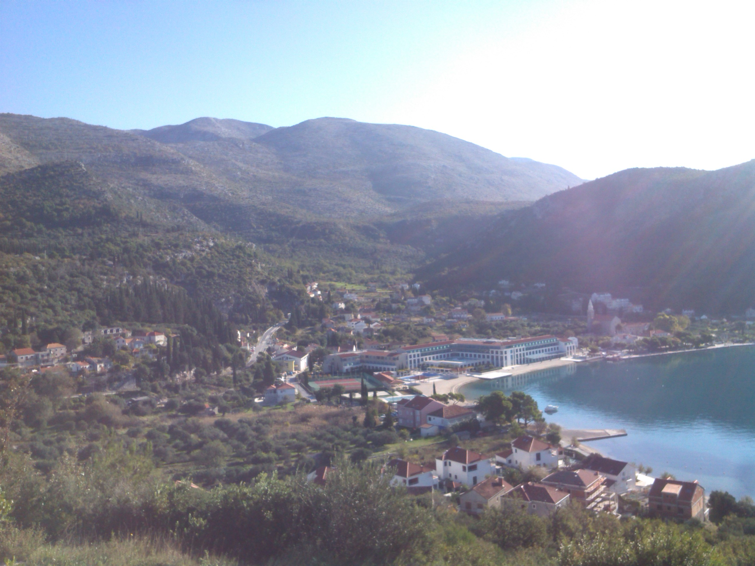 Slano